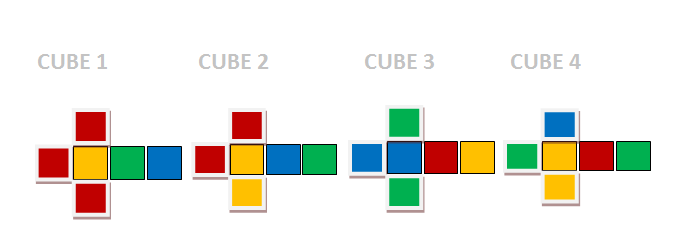 The images are steps to solve the instant sanity problem